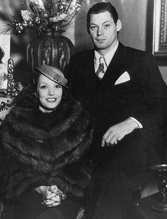 Lupe Vélez & Johnny Weissmüller after their wedding, October 11, 1933.